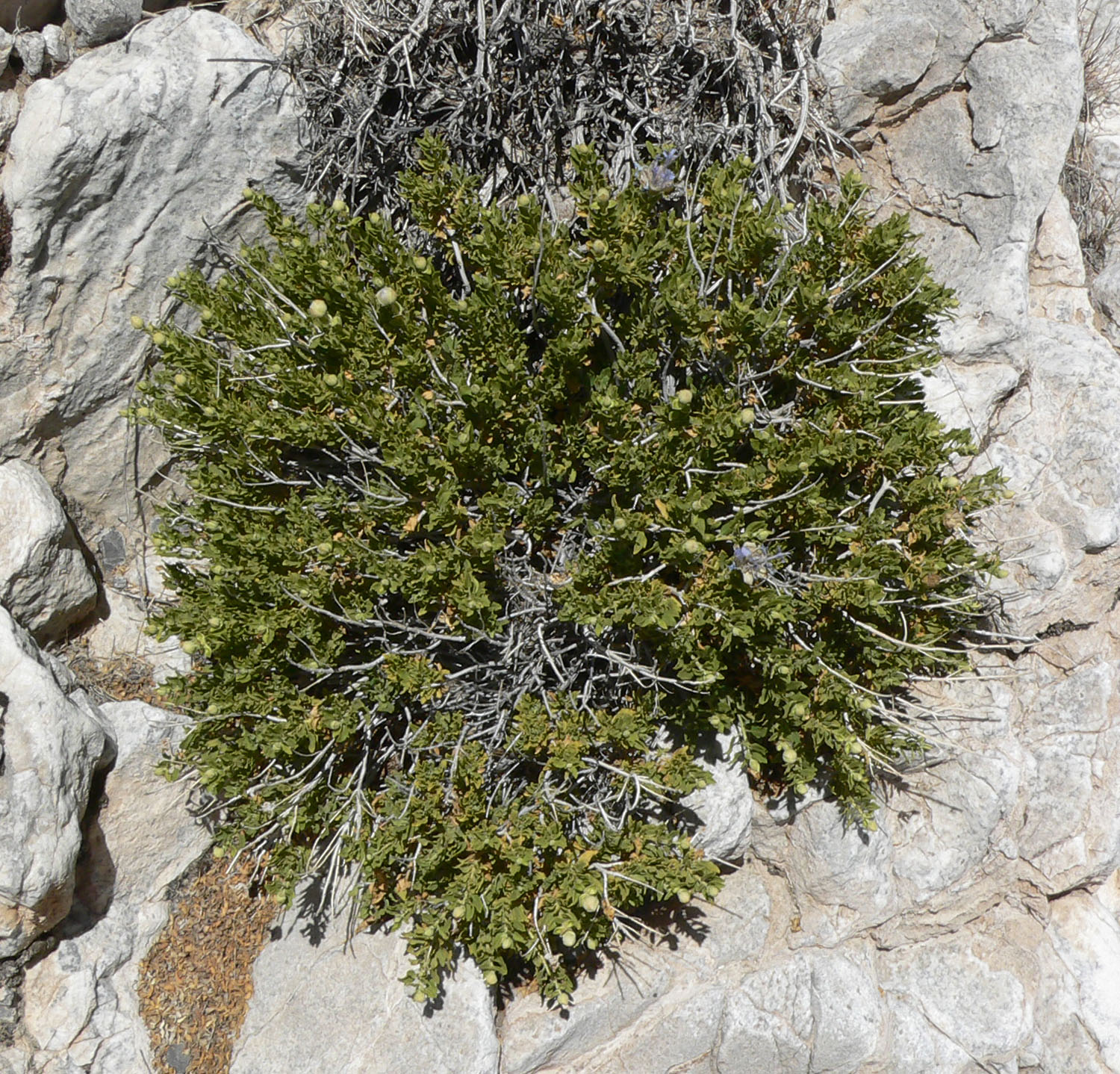 Salvia mohavensis at the Green Monster Mine north of Sandy Valley, southern Spring Mountains, southern Nevada (elev. about 1000 m)